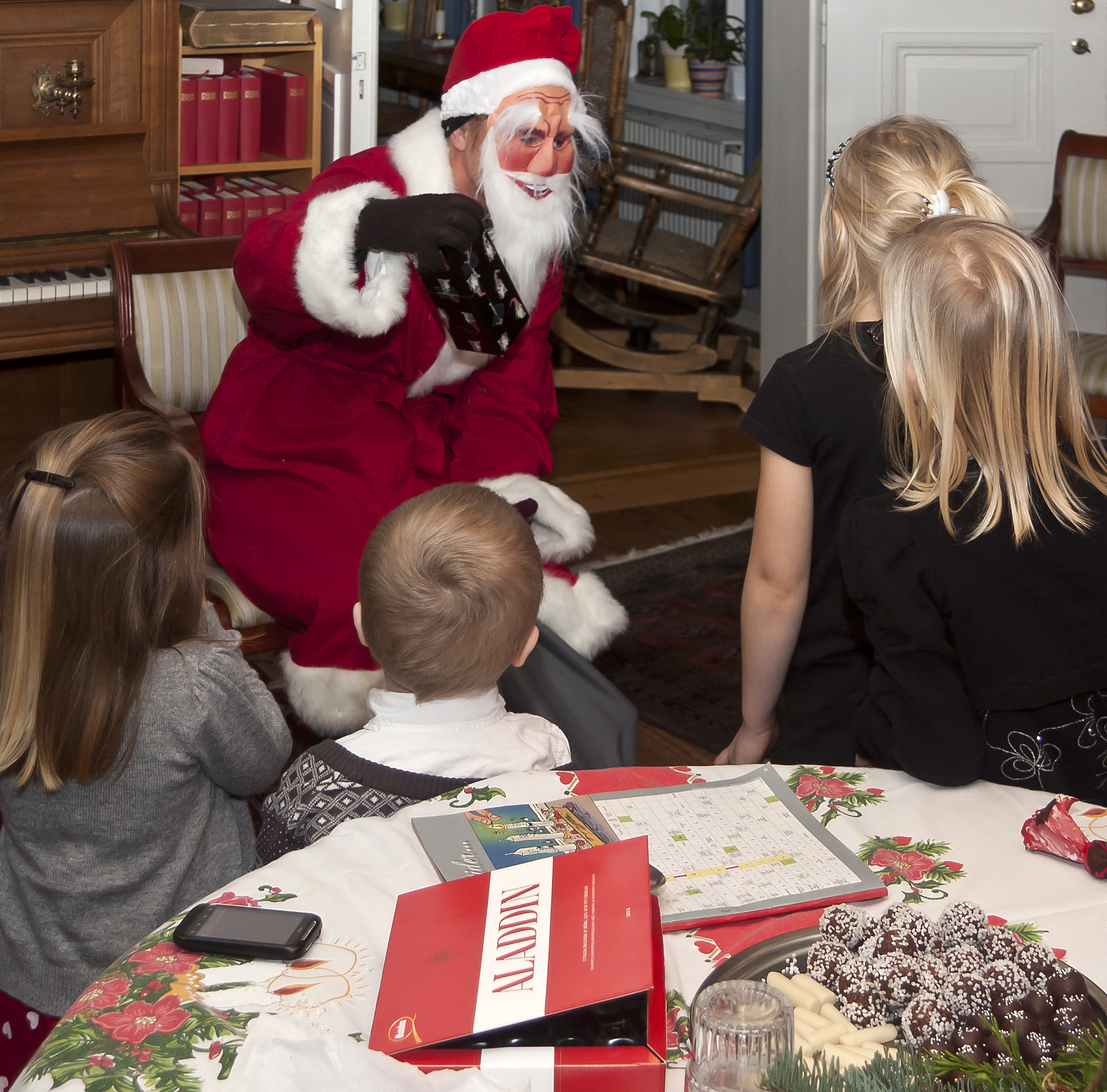 Santa visits a Swedish home on Christmas eve.